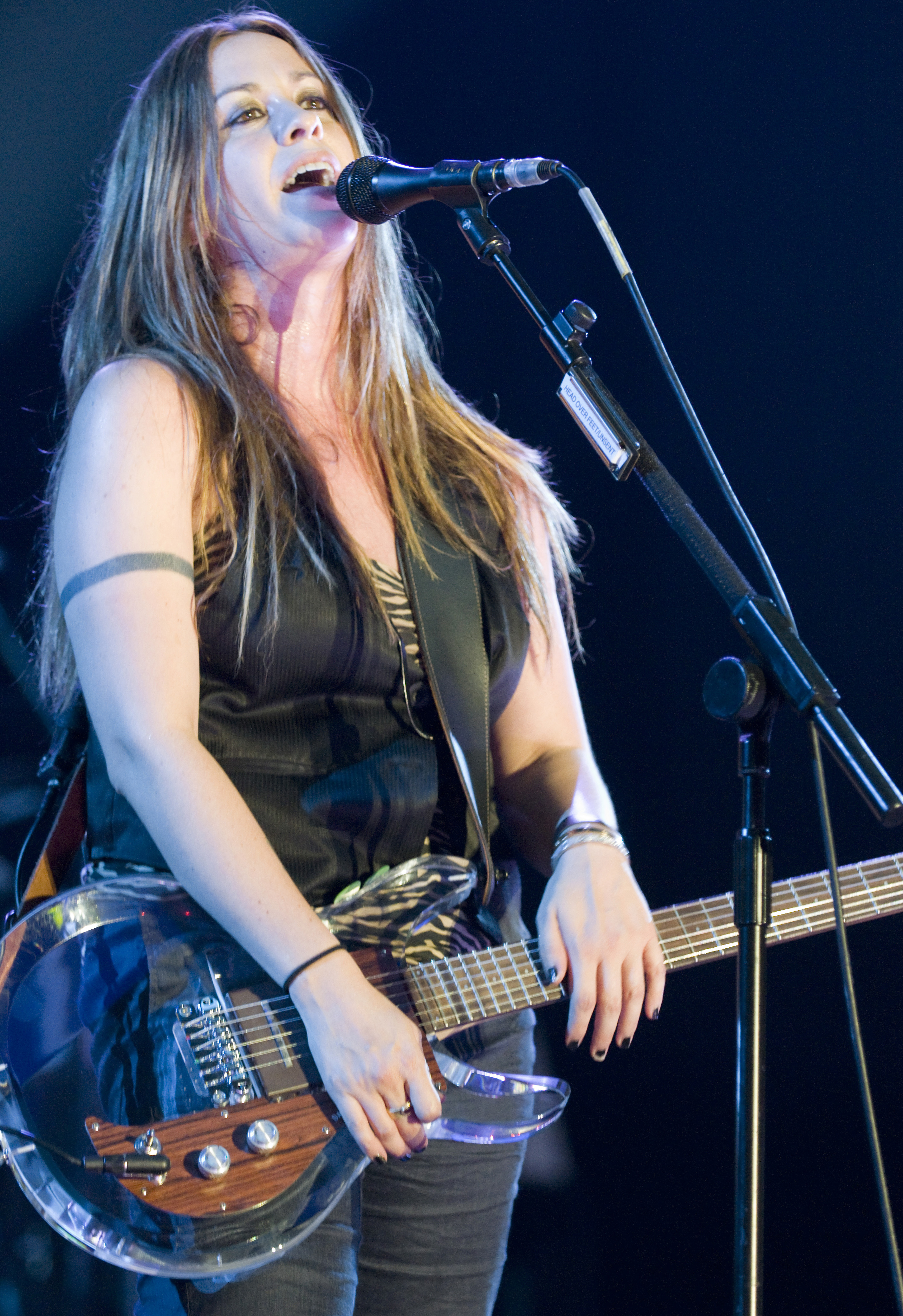 Alanis Morissette. Performing a live concert in the Espacio Movistar, Barcelona, June 2008.